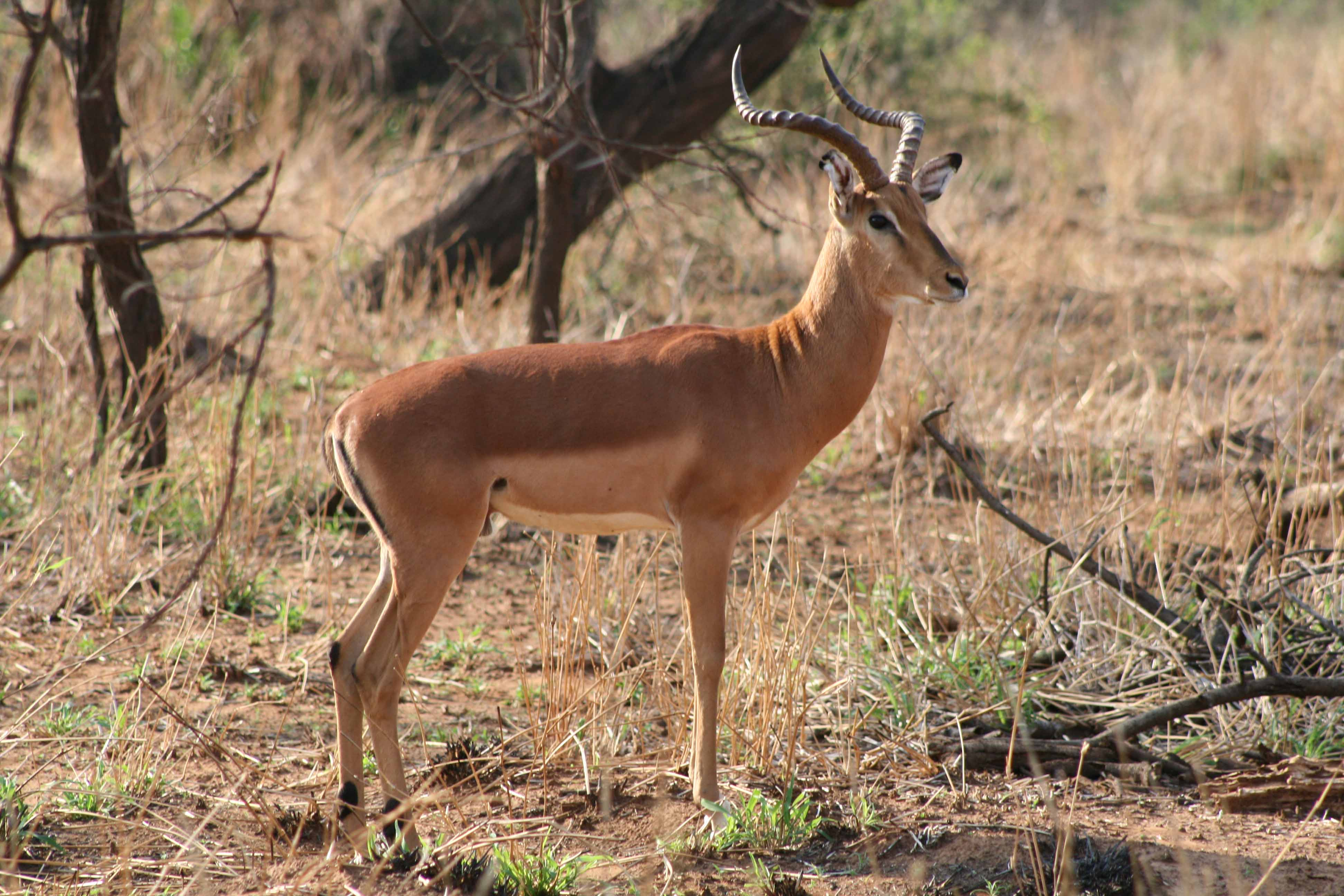 Impala ram. Pafuri region, Kruger National Park. Photo by Lee R. Berger